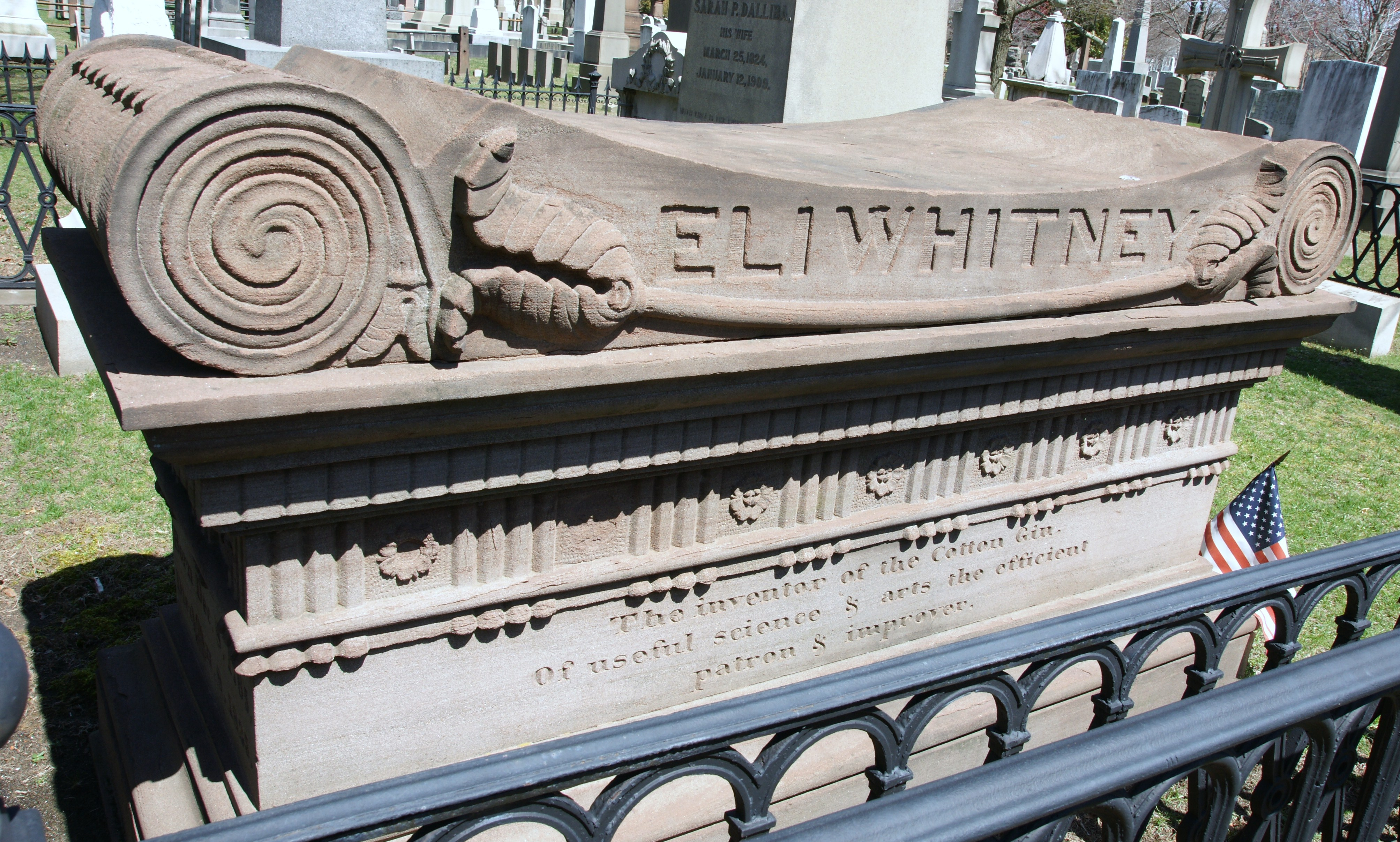 South side of monument at Eli Whitney grave in Grove Street Cemetery, New Haven, Connecticut. The monument is up against iron fences on the south and west sides of the family plot, necessitating an angled view to see the inscription. Inscription on this side reads: "ELI WHITNEY / The inventor of the Cotton Gin. / Of useful science & arts / the efficient patron and improver."